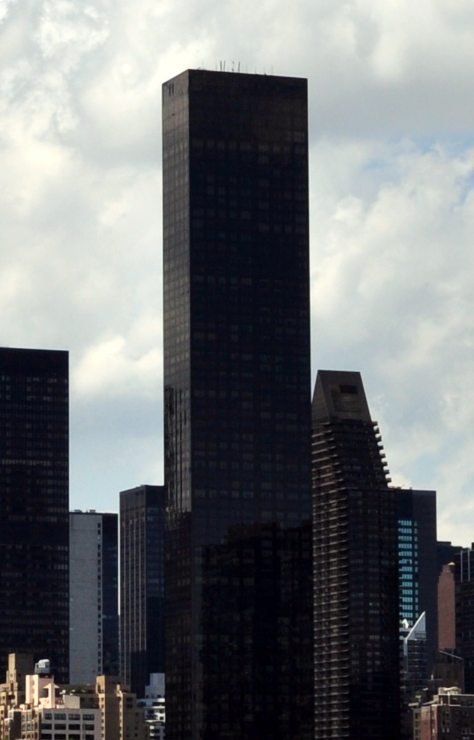 Turtle Bay, Manhattan